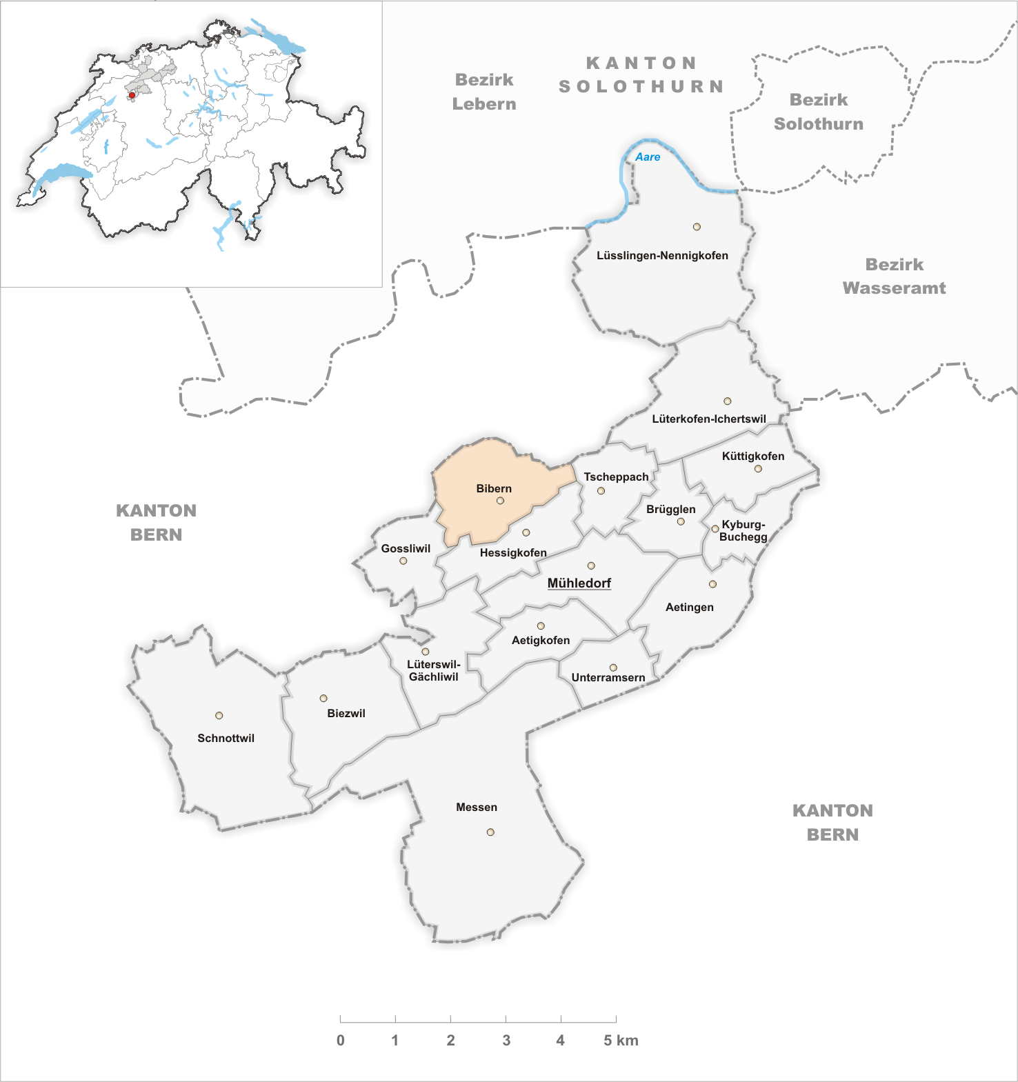 Municipality Bibern